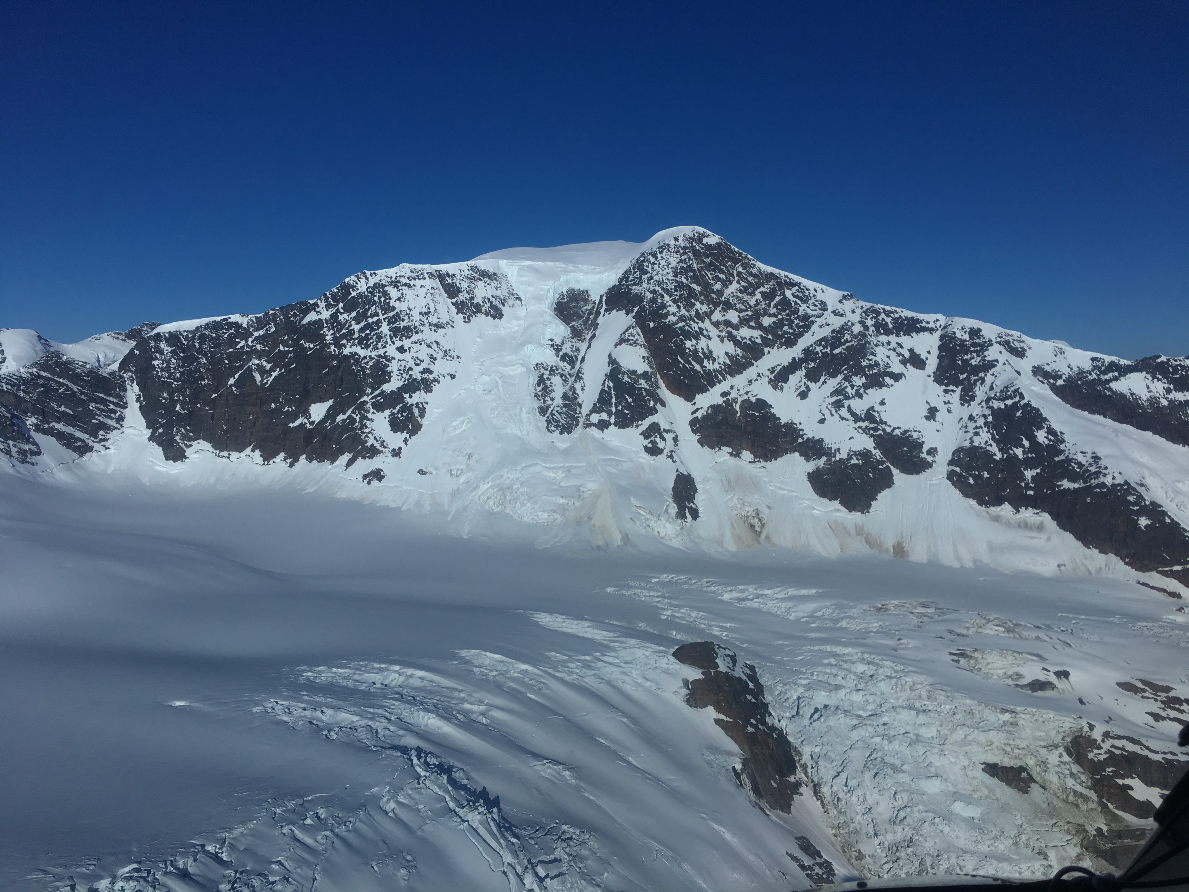 E face of Mt. Sir Wilfred Laurier, Cariboo Mountains, with Tete Glacier below